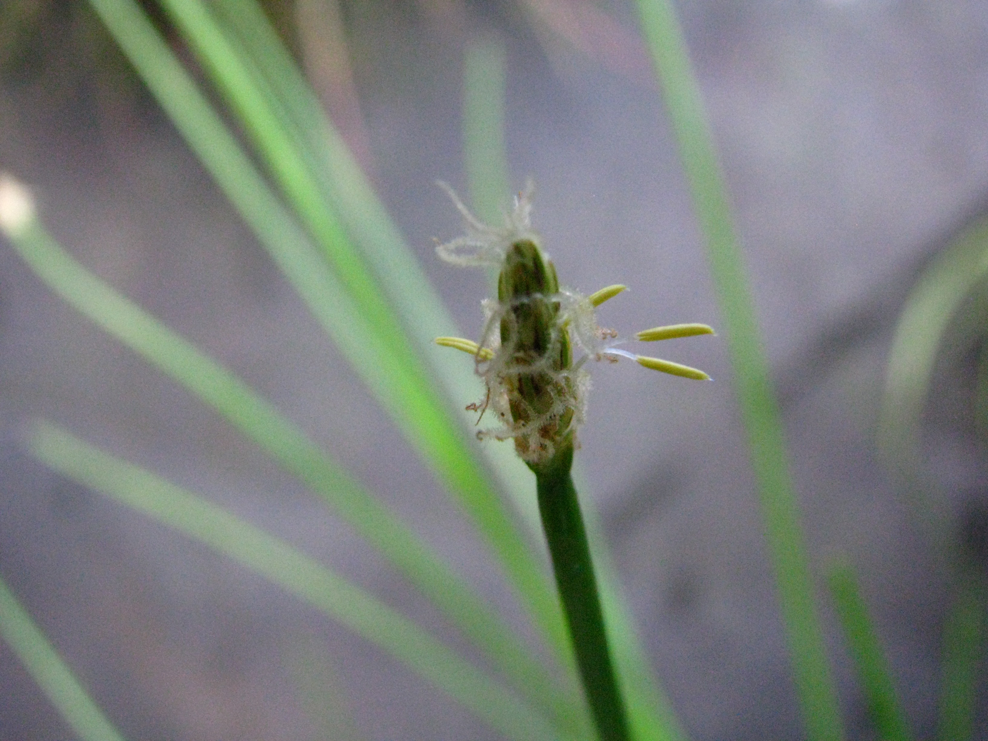 [syn. Eleocharis calva; a misapplied name] Kohekohe or Bald spikerush Cyperaceae Questionably indigenous to the Hawaiian Islands Oʻahu (Cultivated)